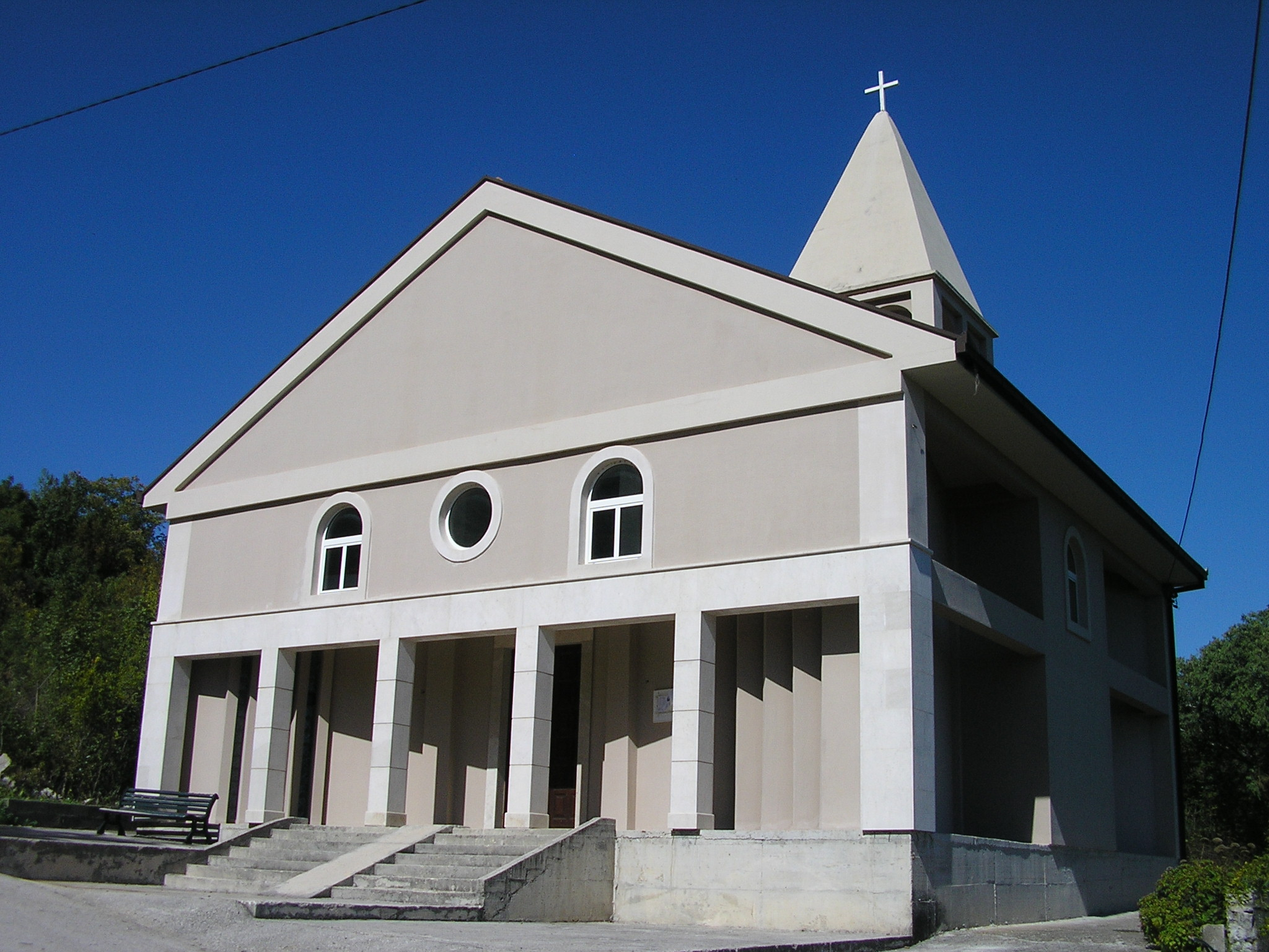 Church of Our Lady of Fátima in Momići